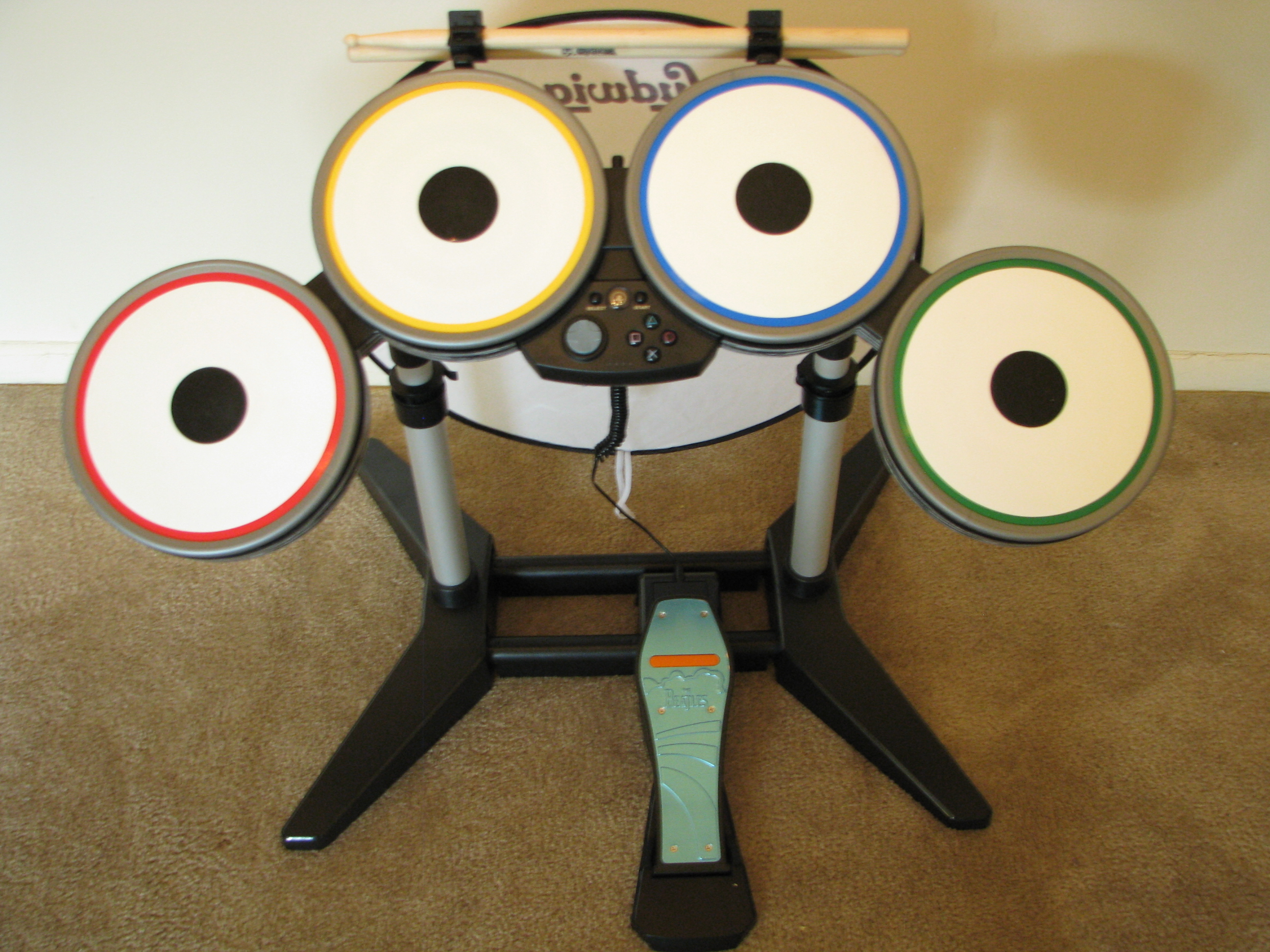 One of the instruments-shaped controllers for the video game The Beatles: Rock Band : a Ludwig drum set.